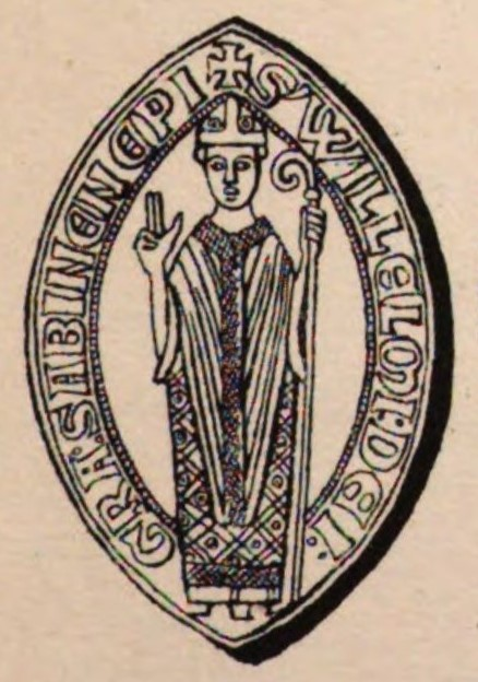 Seal of bishop William of Modena.